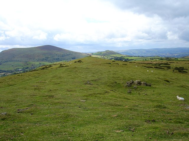 Stapeley Hill There are two cairns on this hill, one at each end. This was taken from the more northerly towards the southerly. Corndon Hill (513m) on the left, the summit lies in SJ3096.